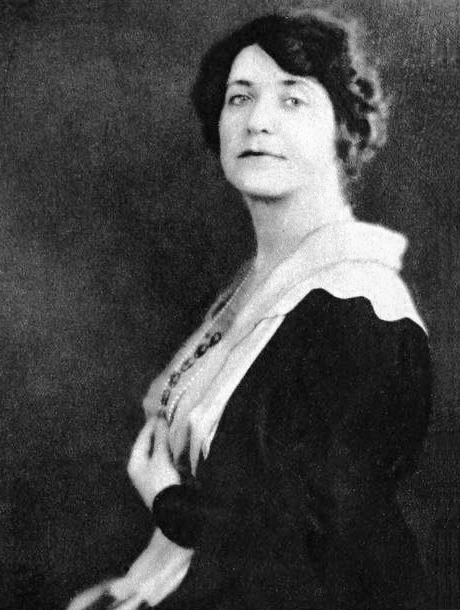 Actress Emma Dunn on page 65 of the April / May 1920 Motion Picture Magazine.